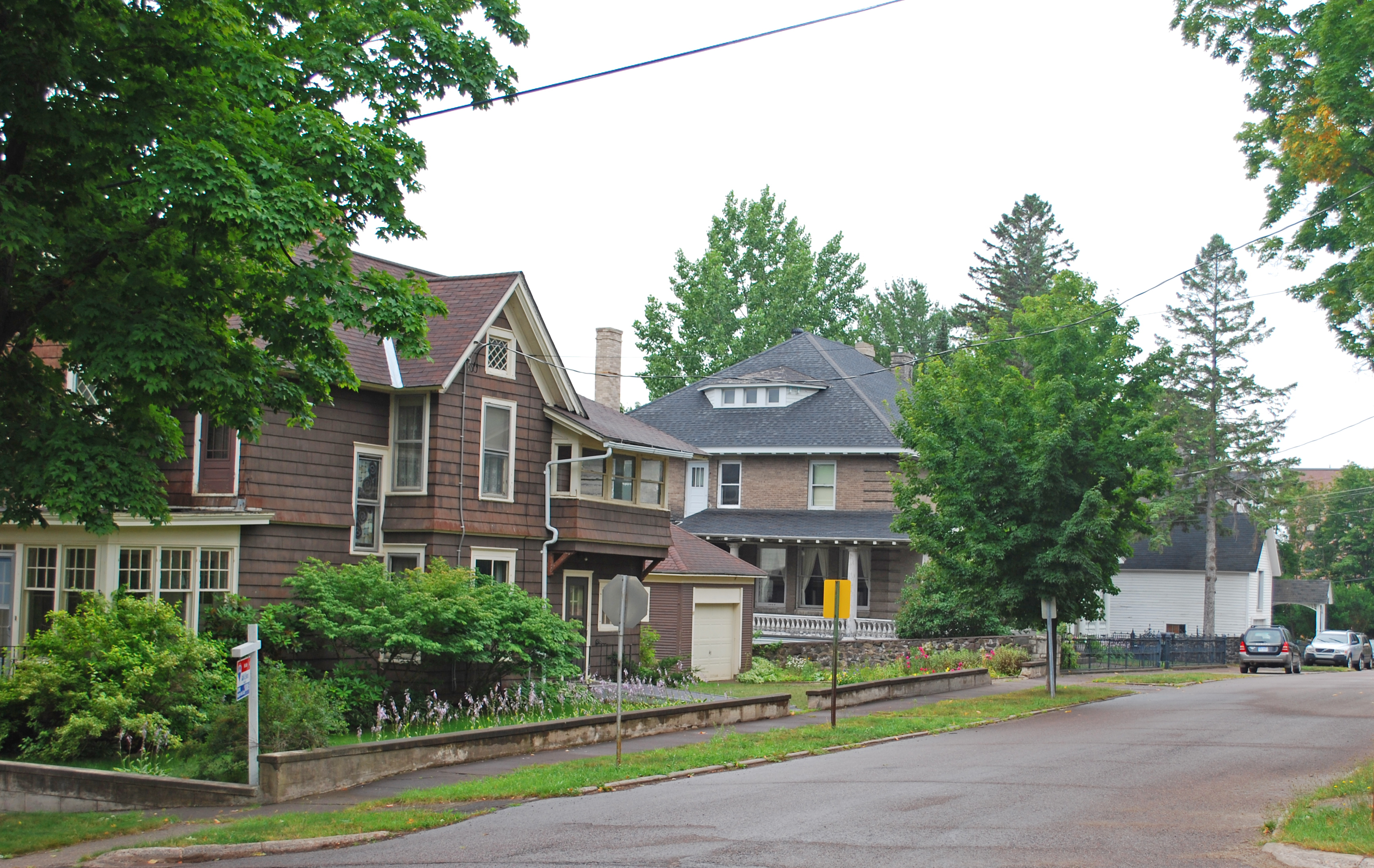 East Hancock MI Neighborhood Historic District homes